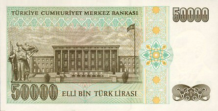 50,000 TL